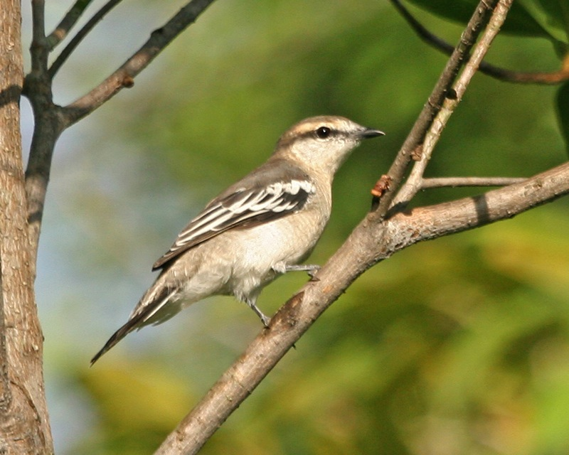 Pied Triller (Lalage nigra striga) September 3, 2005 Island Country Club, Golf course, Singapore